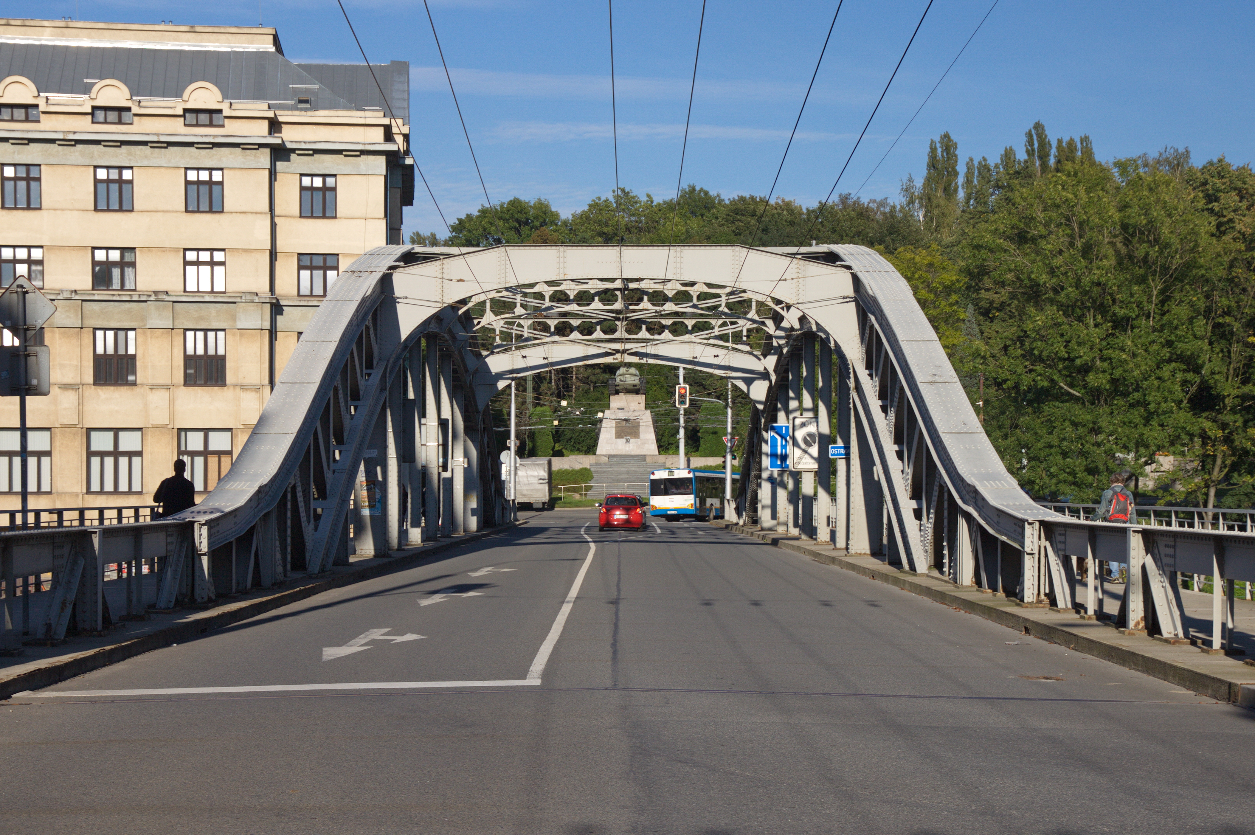 Most Miloše Sýkory, Moravská Ostrava and Slezská Ostrava, over the Ostravice river, Ostrava. Moravian-Silesian Region, Czech Republic.